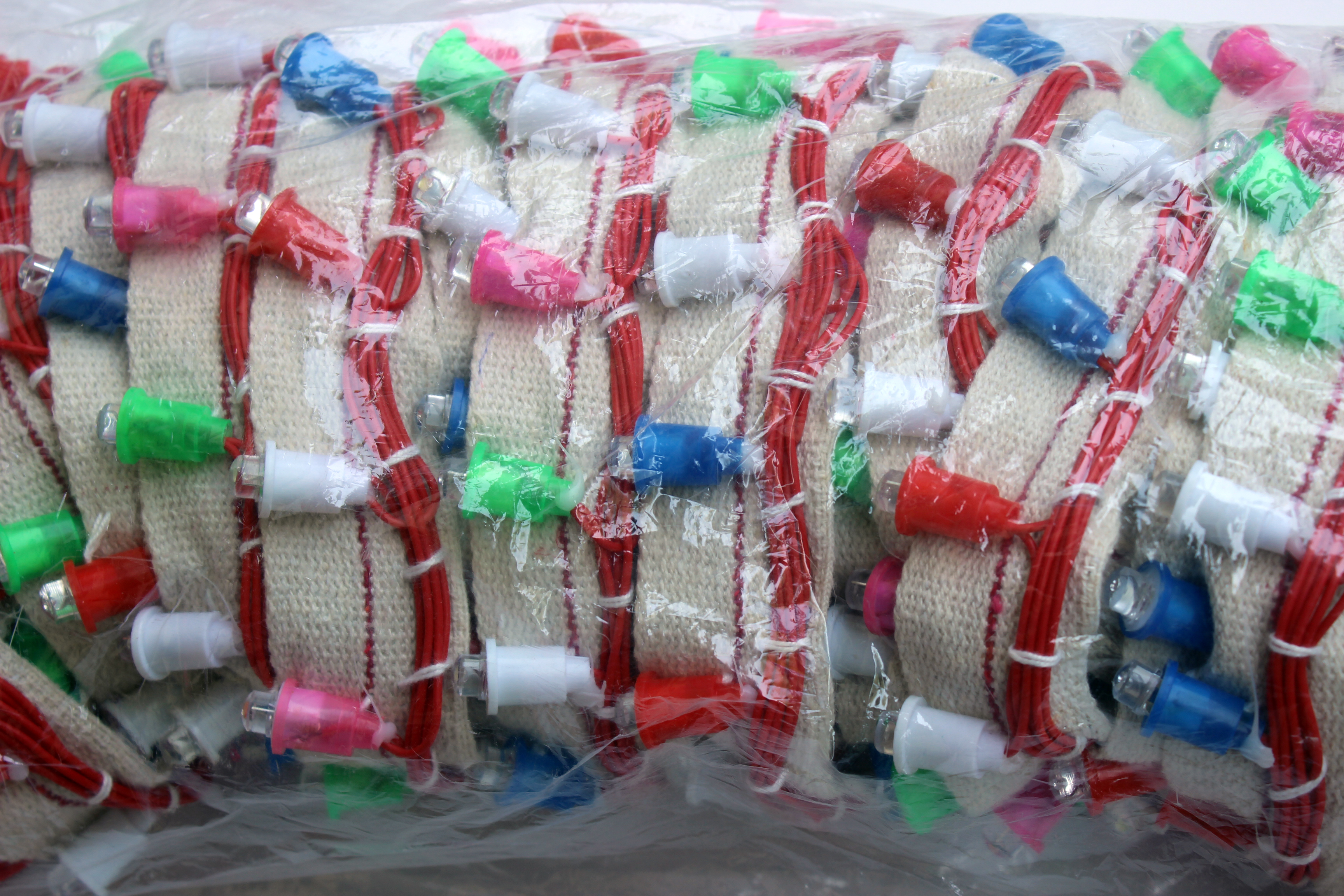 Decorative LED Series Lights Made in India